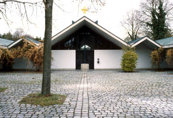 Inner patio of the Discalced Carmelite nuns' monastery at Dachau Innenhof des Karmels Heilig Blut in Dachau